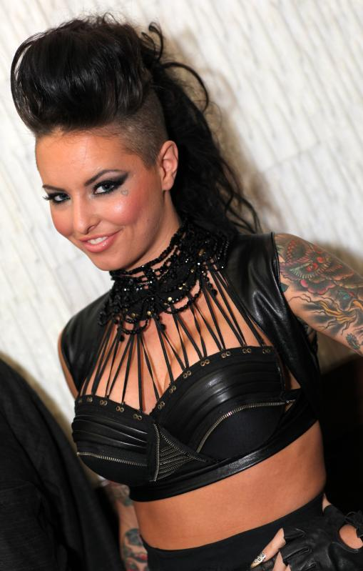 Christy Mack